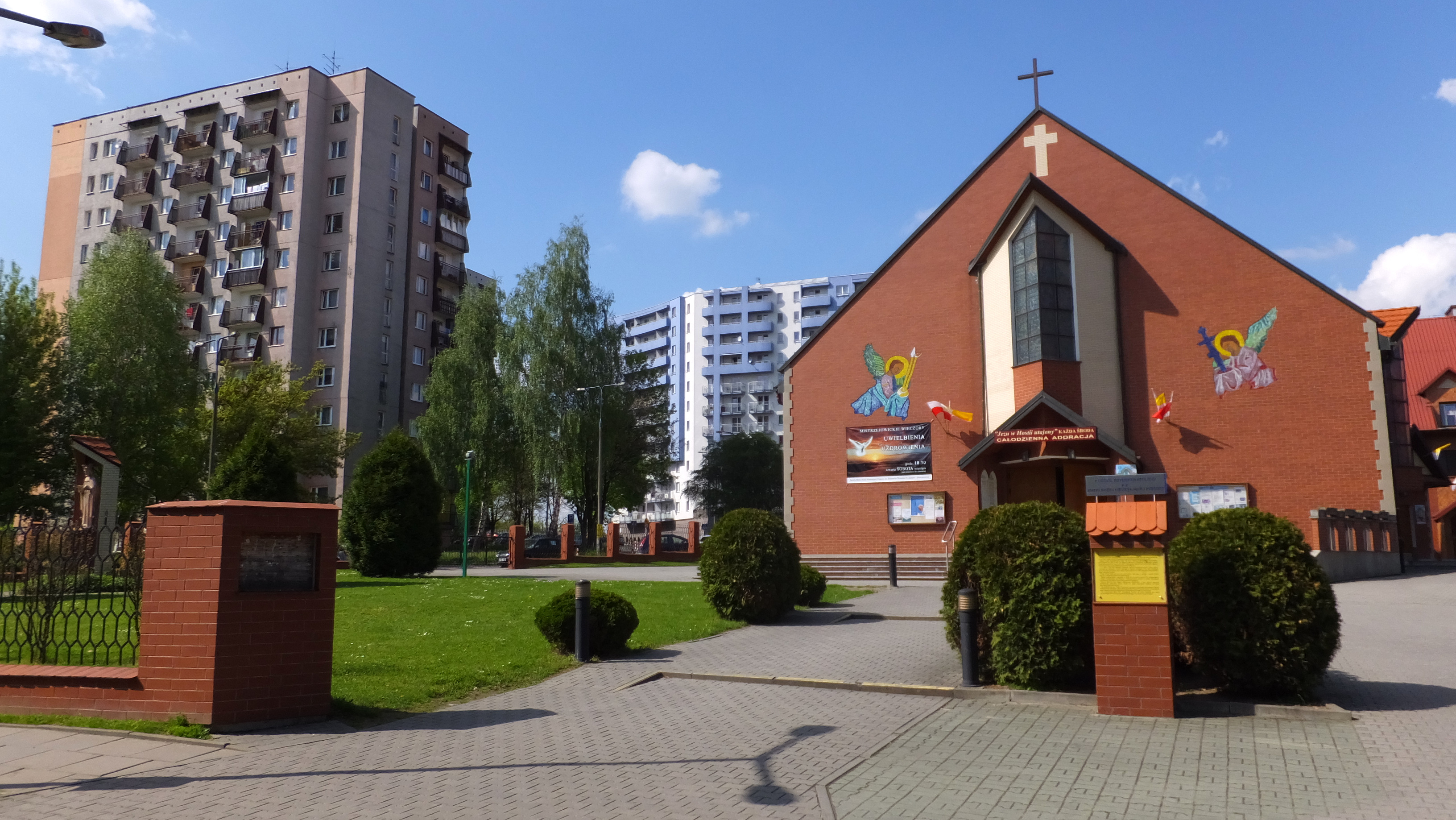 Our Lady of Perpetual Help Church, 33 osiedle Bohaterów Września, Kraków